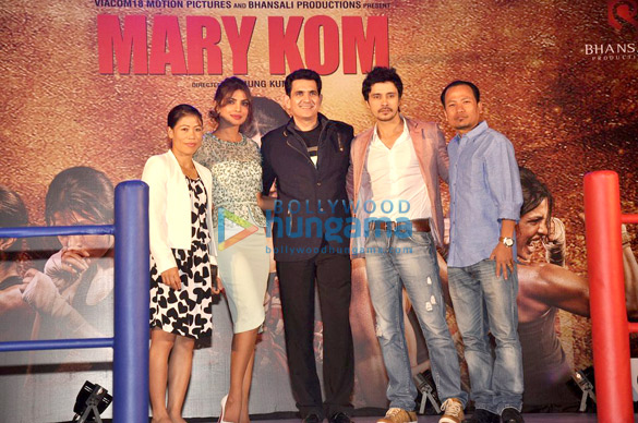 Kumar (4th person from left) at the audio release of 'Mary Kom'